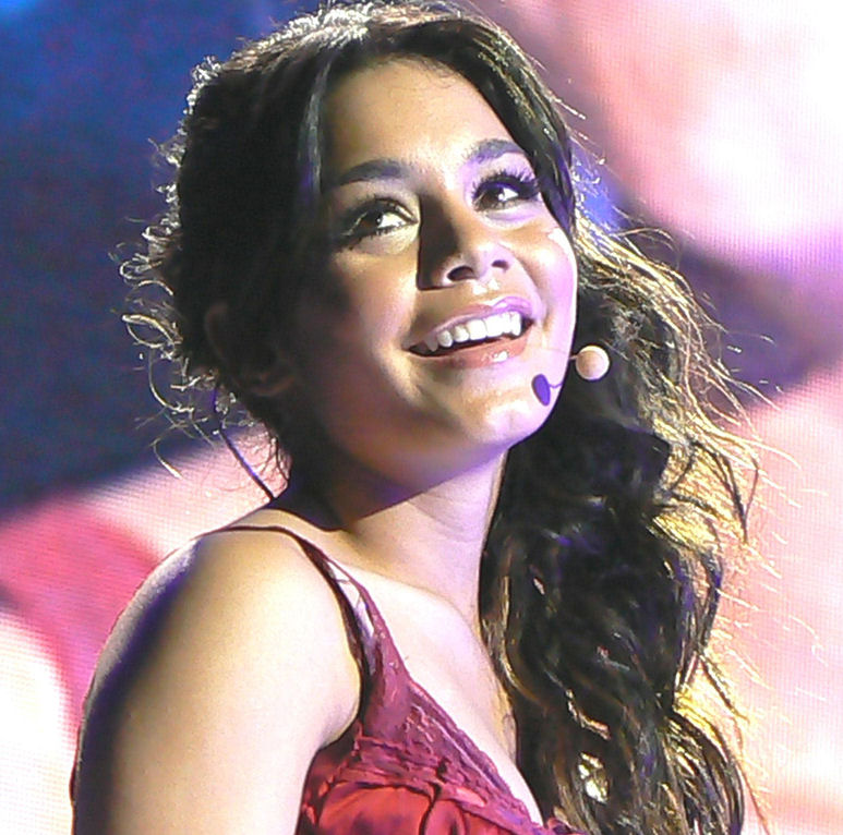 Vanessa Anne Hudgens on the set of Disney's High School Musical 2 as Gabriella Montez.